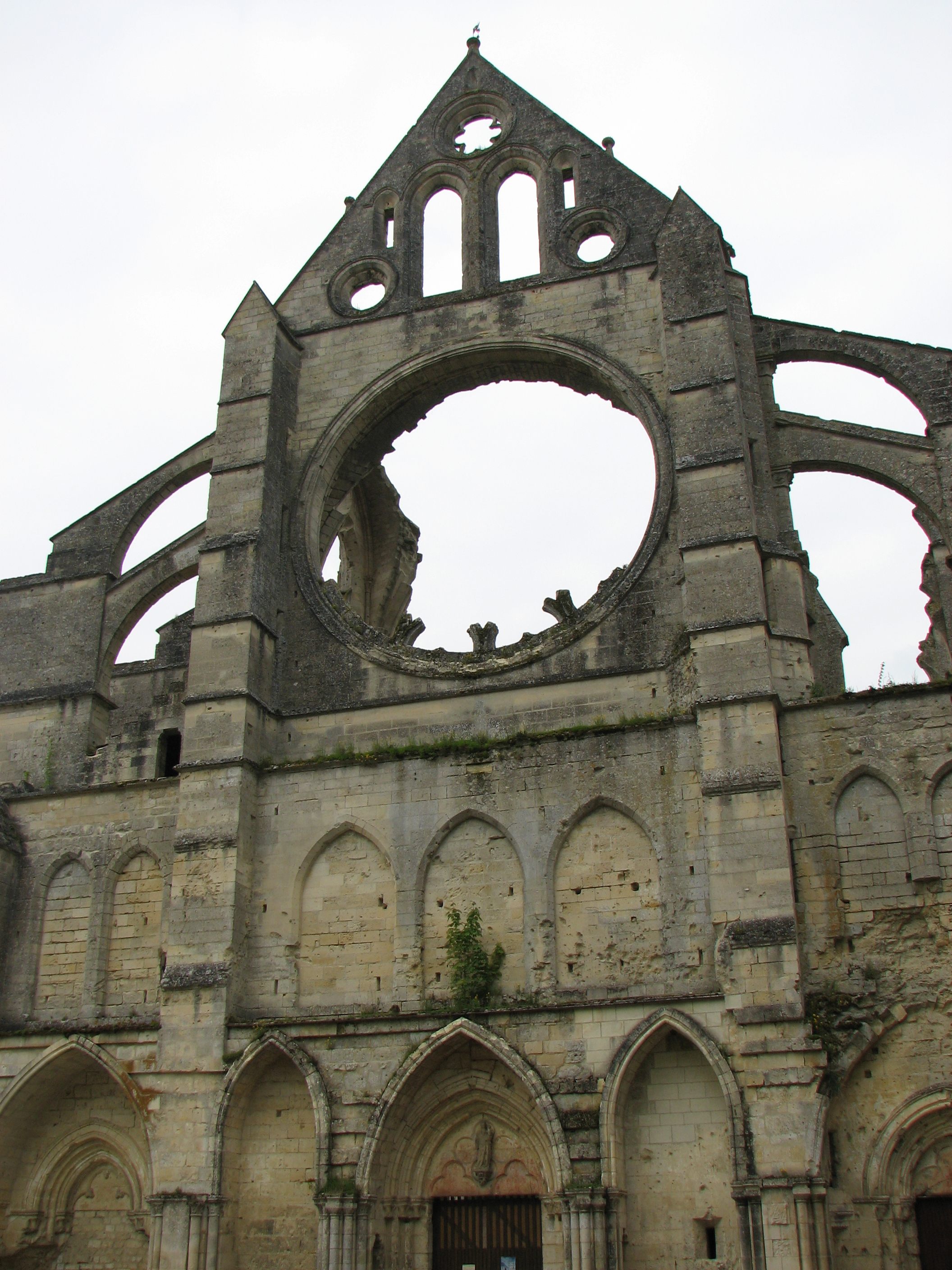 Abbaye de Longpont, in the French departement de l'Aisne